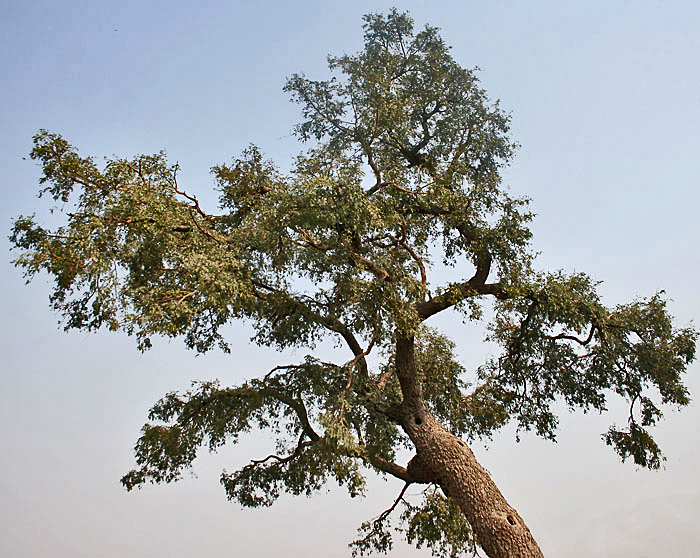 Jhand Prosopis cineraria at Hodal in Faridabad District of Haryana, India.